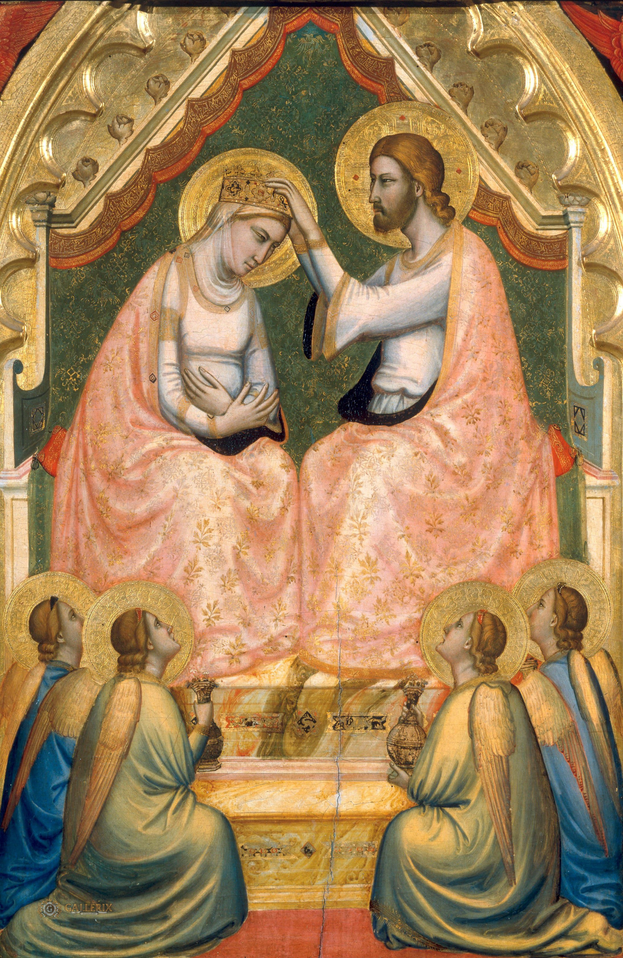 Giotto._Baroncelli_Polyptych_(central_panel)_c.1334_Baroncelli_Chapel,_Santa_Croce,_Florence